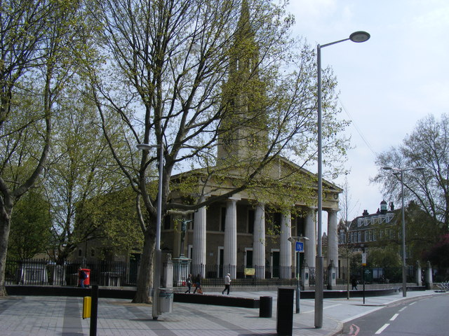 St John the Evangelist Waterloo The church was built in 1824 to celebrate the victory in the Napoleonic wars. It was firebombed in 1940, destroying much of the interior. It was restored and remodelled internally by Thomas Ford in 1950. In 1951 the Church was rededicated as the Festival of Britain Church.